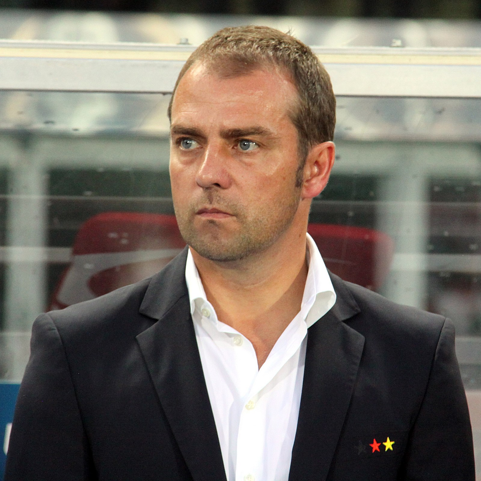 Hans-Dieter Flick, assistant coach of the german national football team - OpenStreetMap(Info)